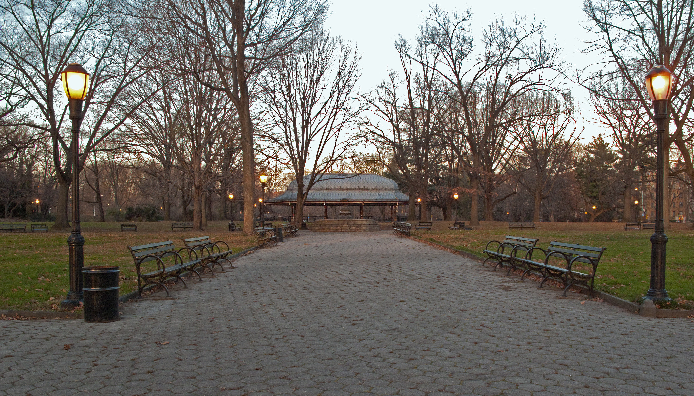 The Oriental Pavilion in Prospect Park, Brooklyn, NY.